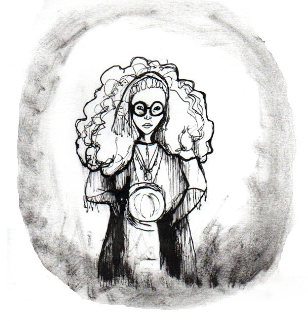 Fan art representing Sibylle Trelawney made with foutain pen and Indian ink by Mademoiselle Ortie aka Elodie Tihange. This drawing is not affected by any copyright infringement. See the discussion that previously decided on its conservation.